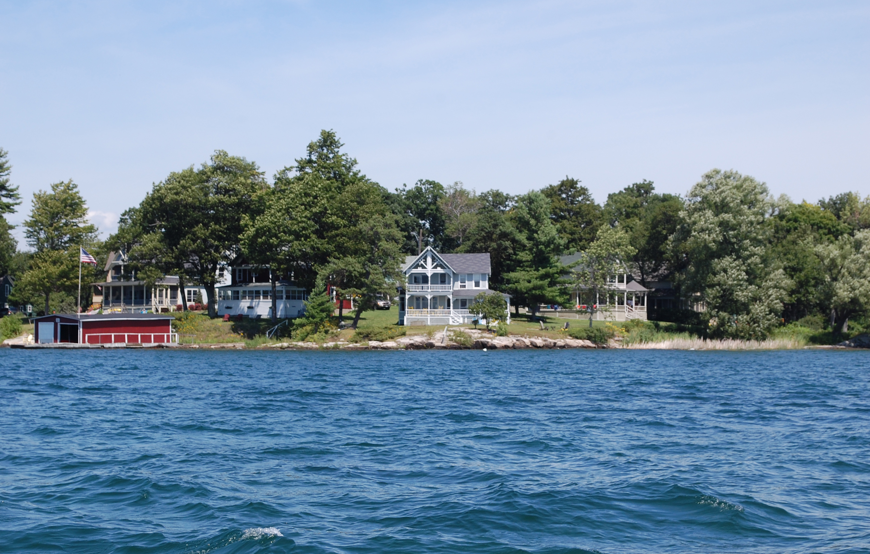 Victorian cottages in the community of Thousand Island Park on Wellesley Island, New York, as seen from the Saint Lawrence Seaway.